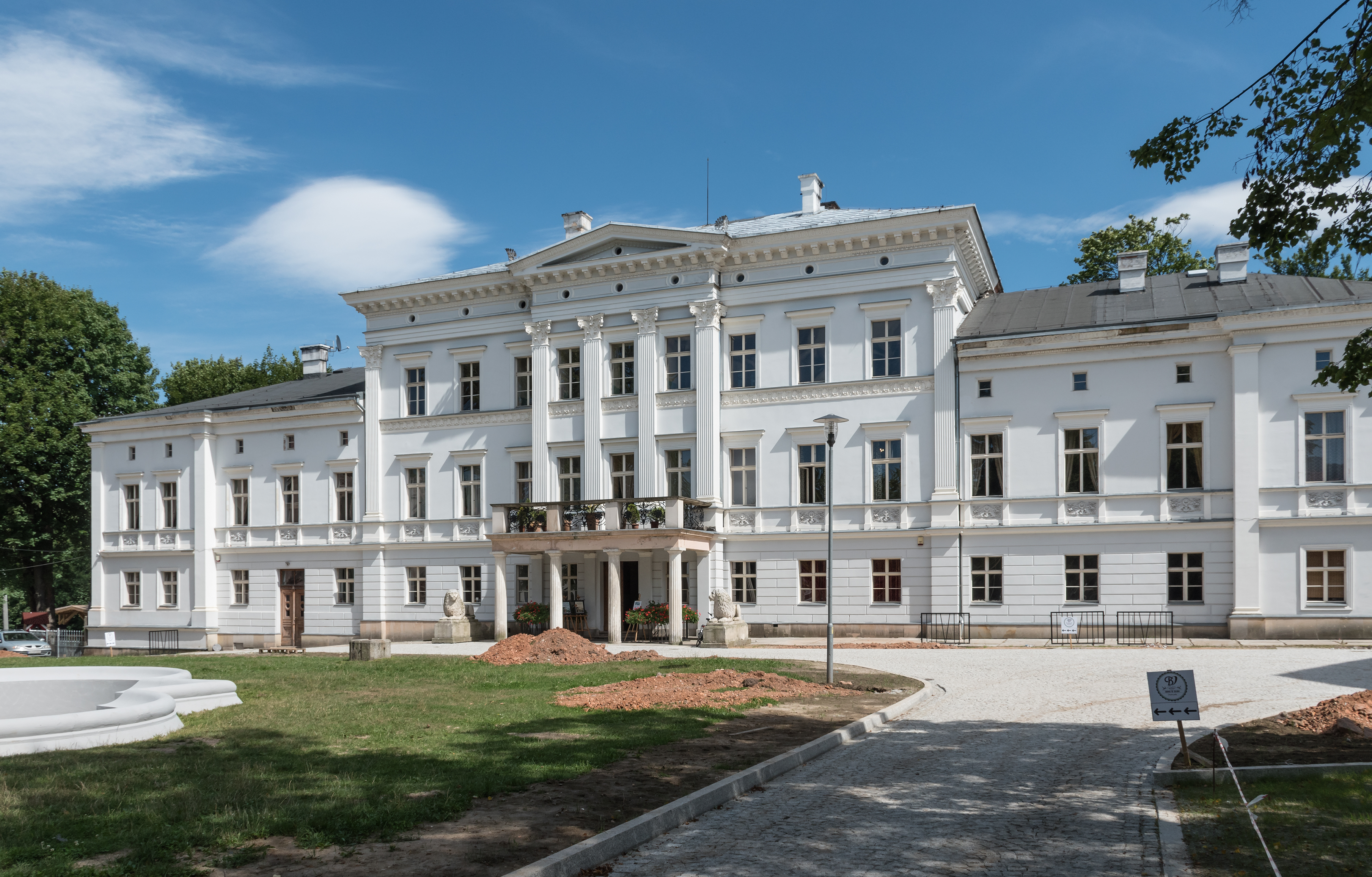 Palace in Jedlinka Wikidata has entry Q30082294 with data related to this item.